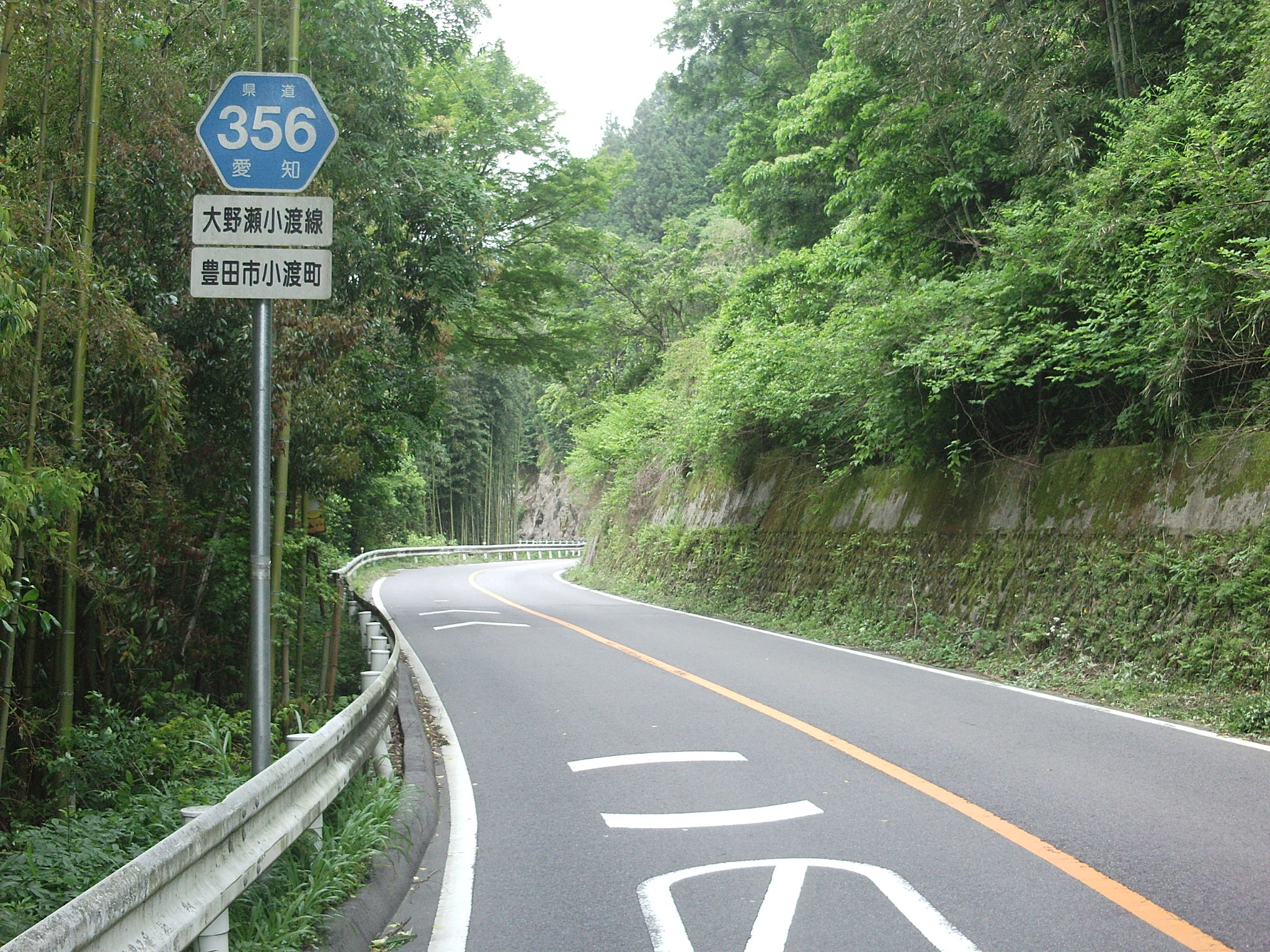 The Aichi Prefectural Road Route 356 in Odocho, Toyota City